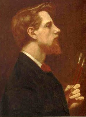 Selfportrait